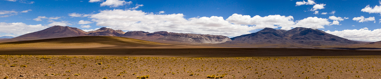 The Tatio, Cº La Torta and Cerros de Tocorpuro volcanic chain, seen from the high plain SW of the vado de Putana. Chile - II Region.